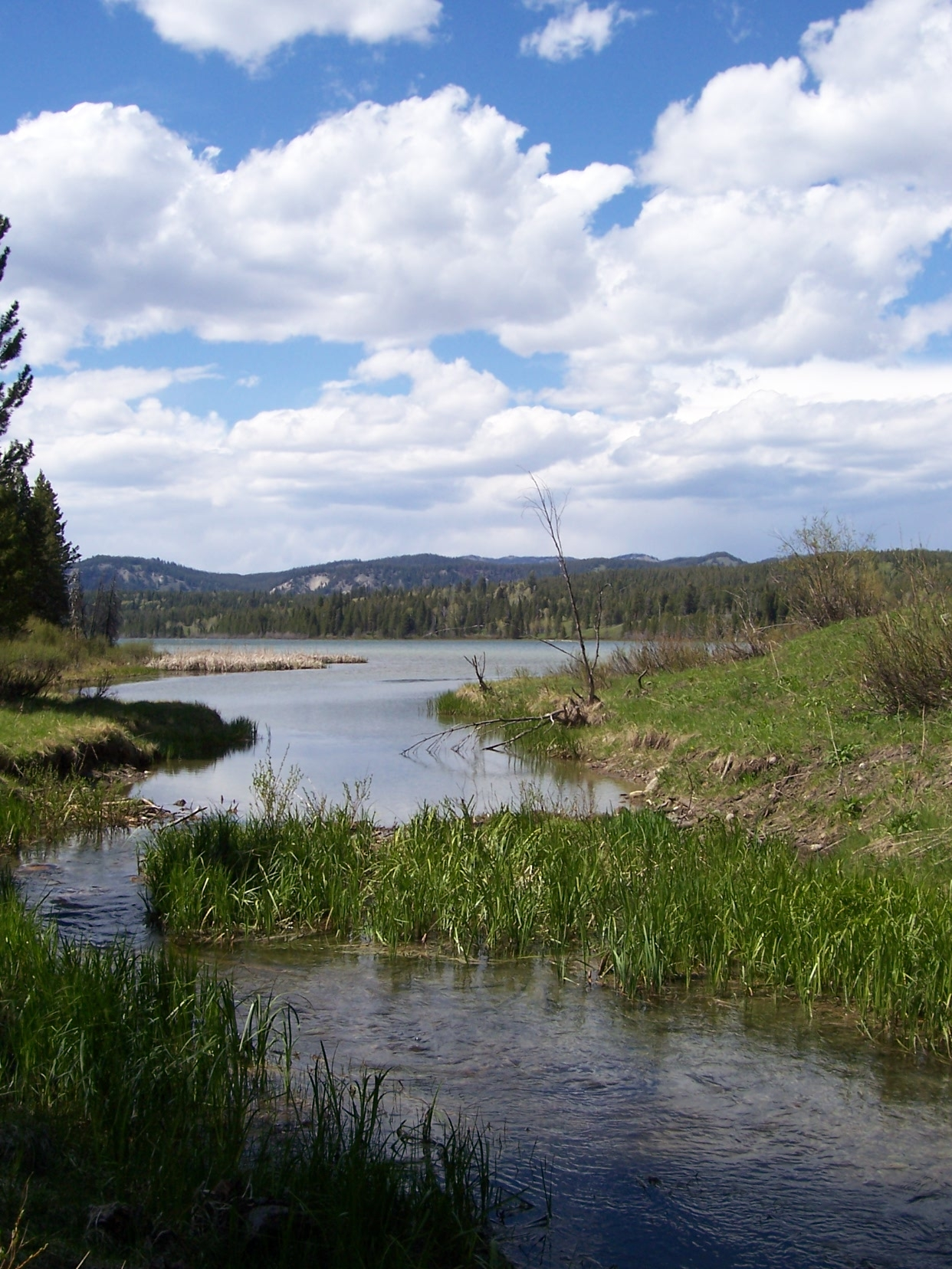 Emma Matilda Lake oulet stream. The lake is in the background. The lake is located in Grand Teton National Park in Wyoming, United States.